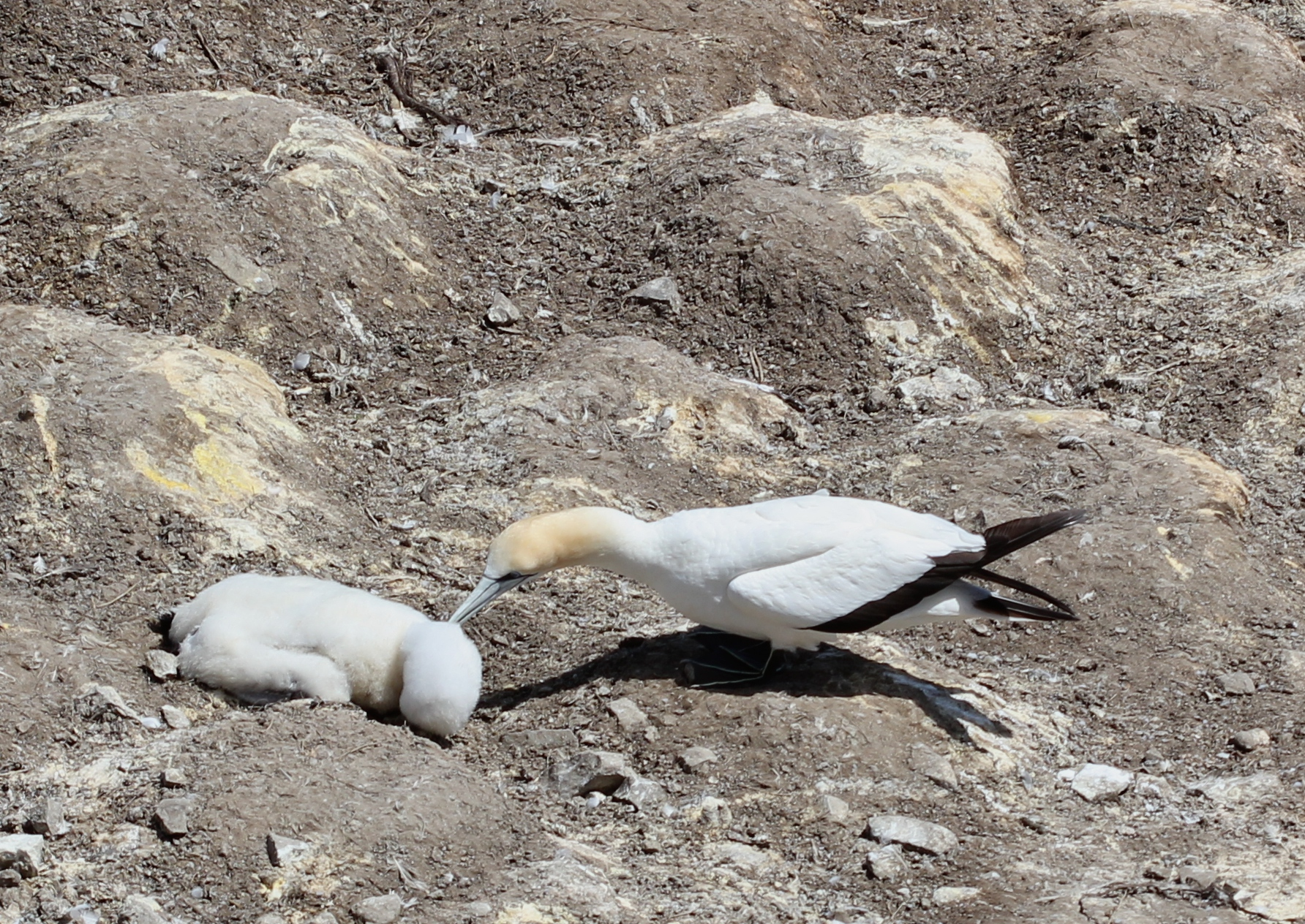 An Australasian Gannet (Morus serrator) tries to rouse its chick. Photo taken at the Muriwai gannet colony, near Auckland, New Zealand.